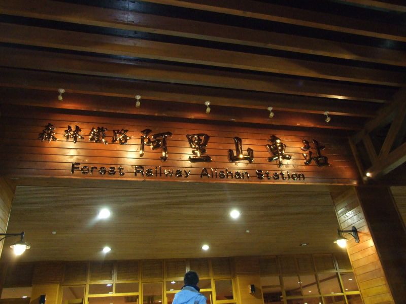 Alishan Forest Railway Alishan Station 阿里山森林鐵路阿里山車站